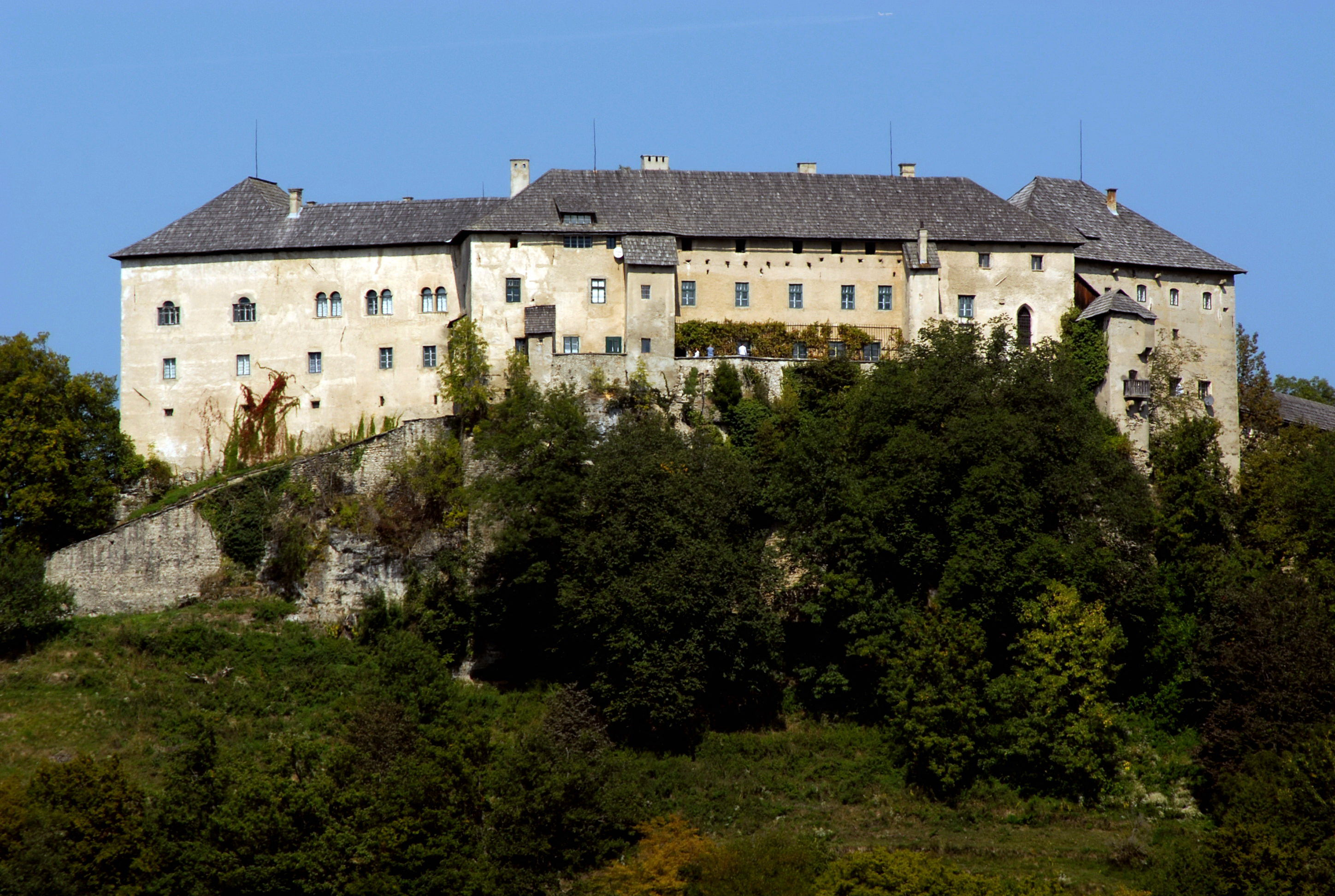 Southern view of castle Hollenburg in Hollenburg, municipality Köttmannsdorf, district Klagenfurt Land, Carinthia, Austria, European Union